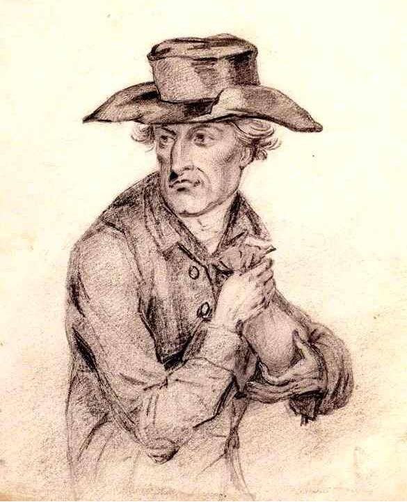 A pencil drawing of Daniel Dancer by Richard Cooper, 1790s, 5 7/8 in. x 4 7/8 in. (149 mm x 124 mm) in the National Portrait Gallery, London